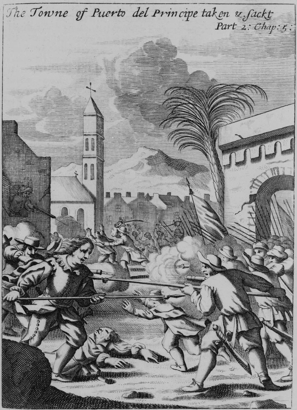 Puerto del Príncipe (now known as Camagüey - being sacked in 1668 by Henry Morgan - Project Gutenberg eText 19396